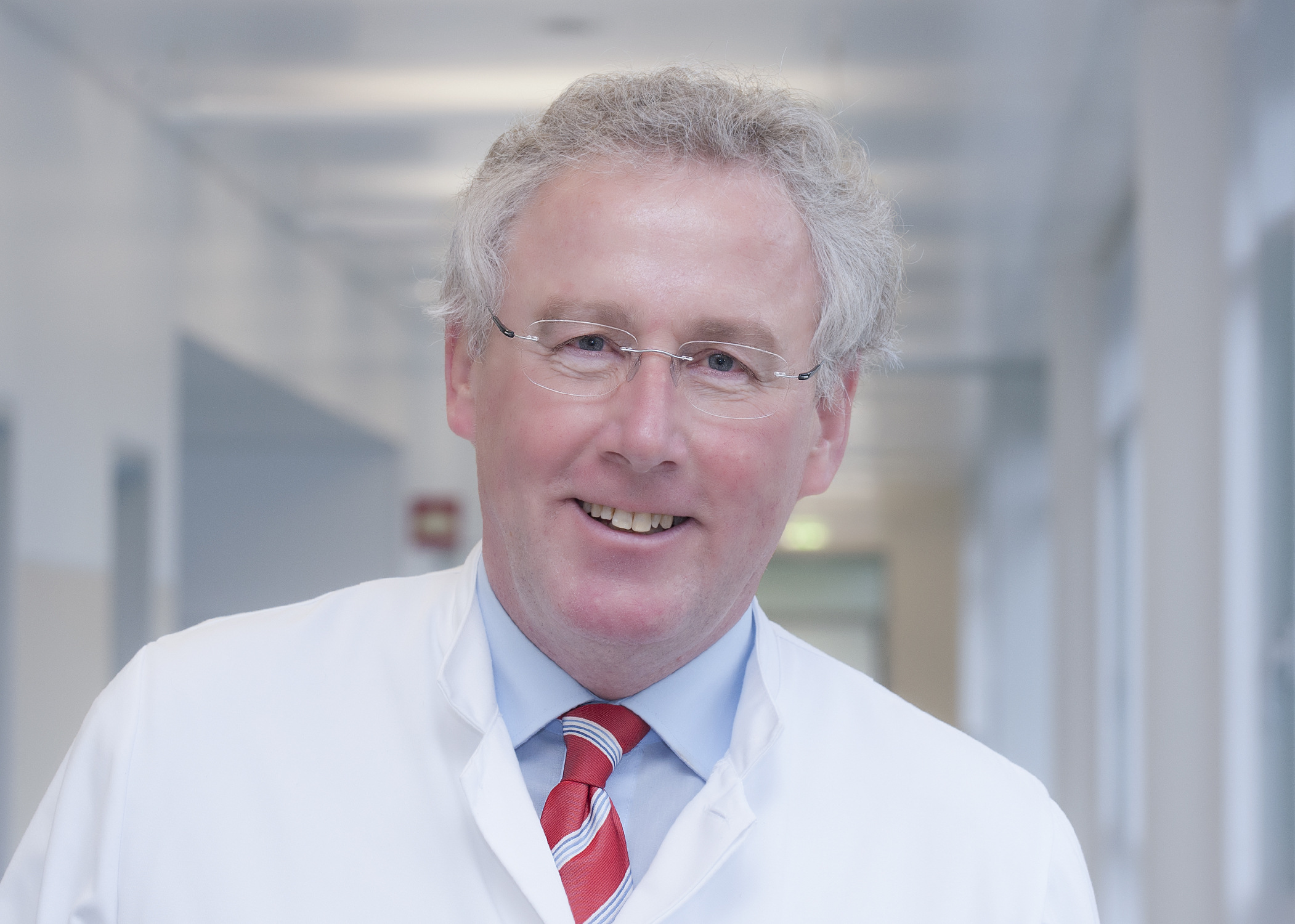 2013; Porträt; Dr. rer. nat. Hubert Schneemann, Ltd. Pharmaziedirektor; Apotheke